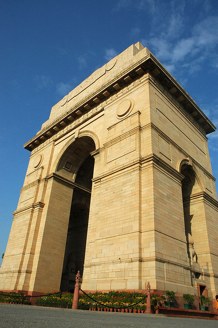 taken from the base of the monument